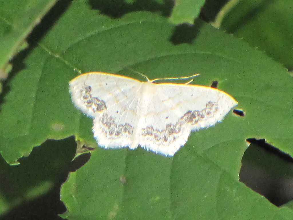 Large Lace-border moth (Scopula limboundata), Gatineau Park, Quebec